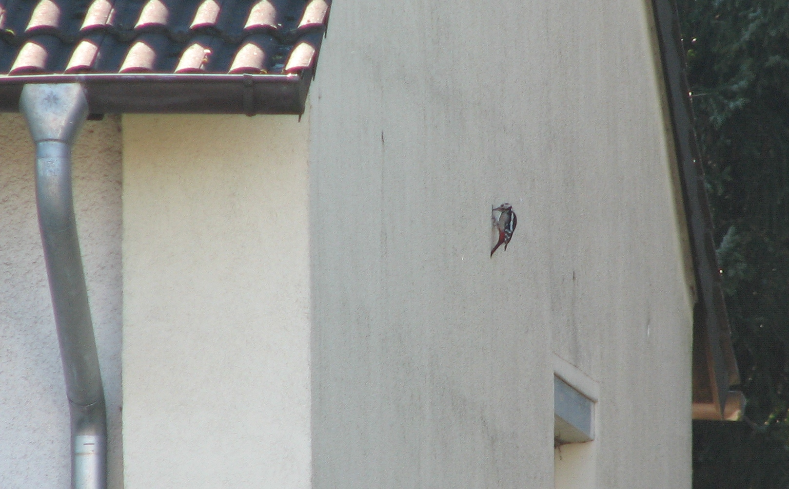 woodpecker damaging a house in Bielefeld